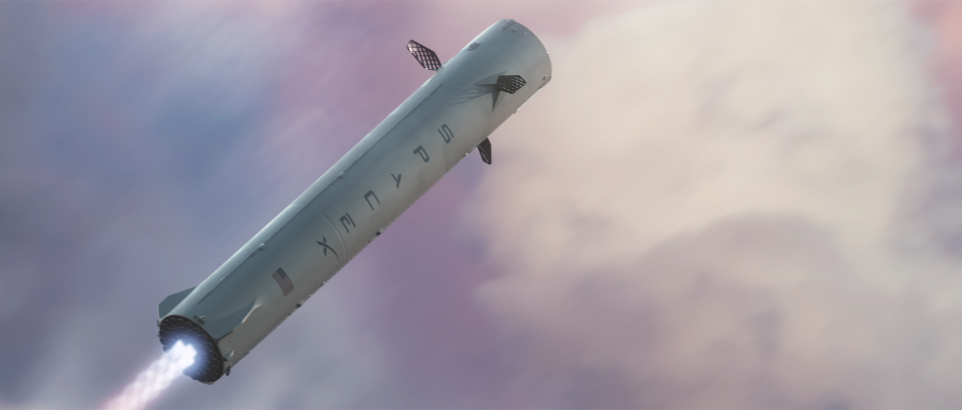 Interplanetary Transport System booster (ITS booster, version 2016) during return-to-the-launch-site (RTLS) operations